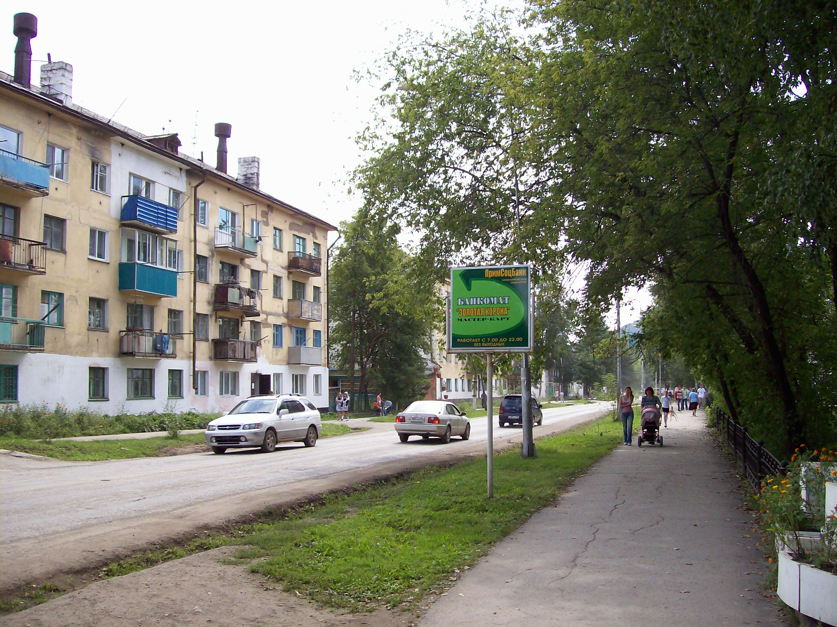 Kavalerovo, Primorsky Krai